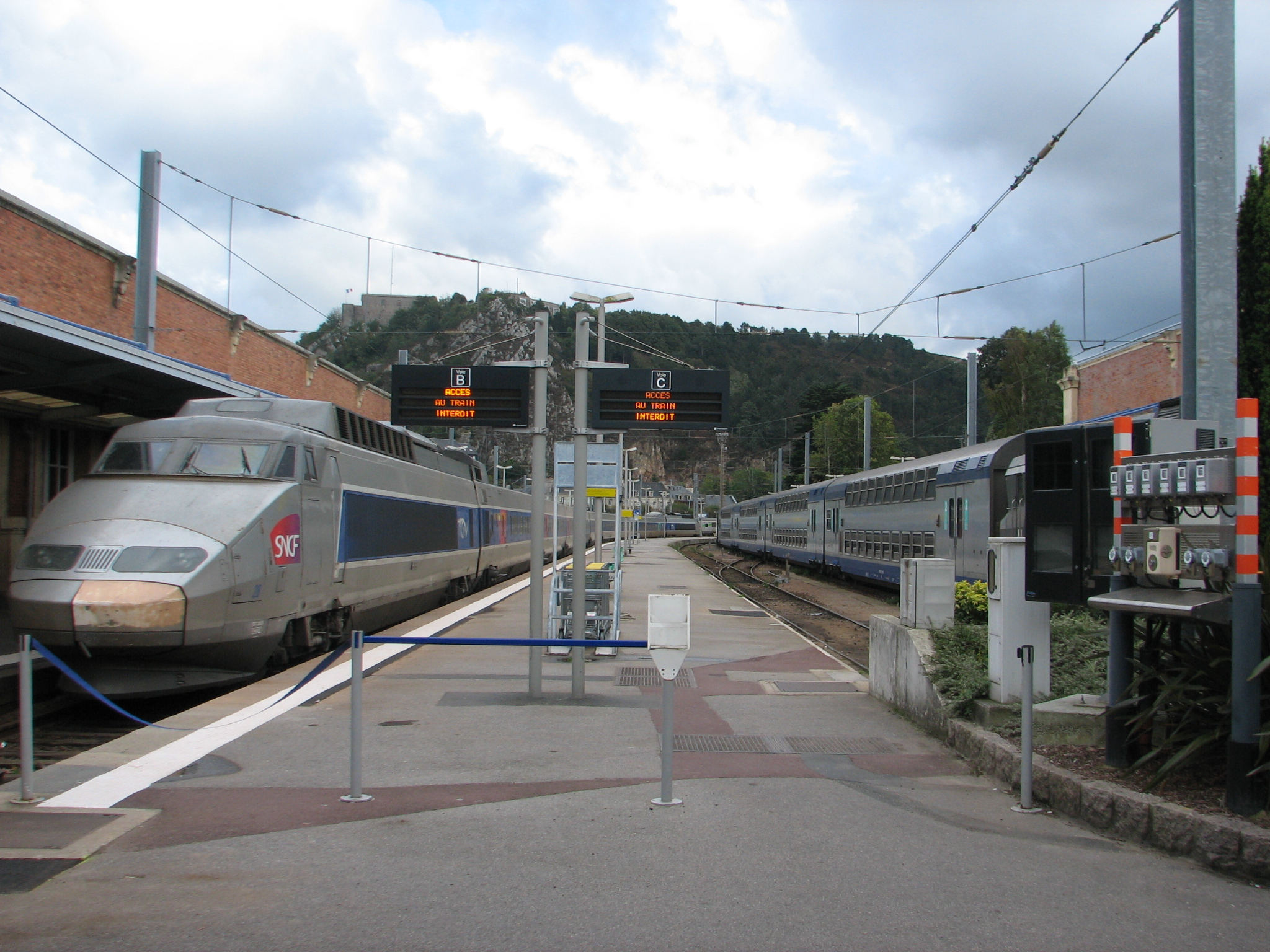 TGV and "V2N" self-propelled in Cherbourg Station, at the foot of the mountain in the "Roule"